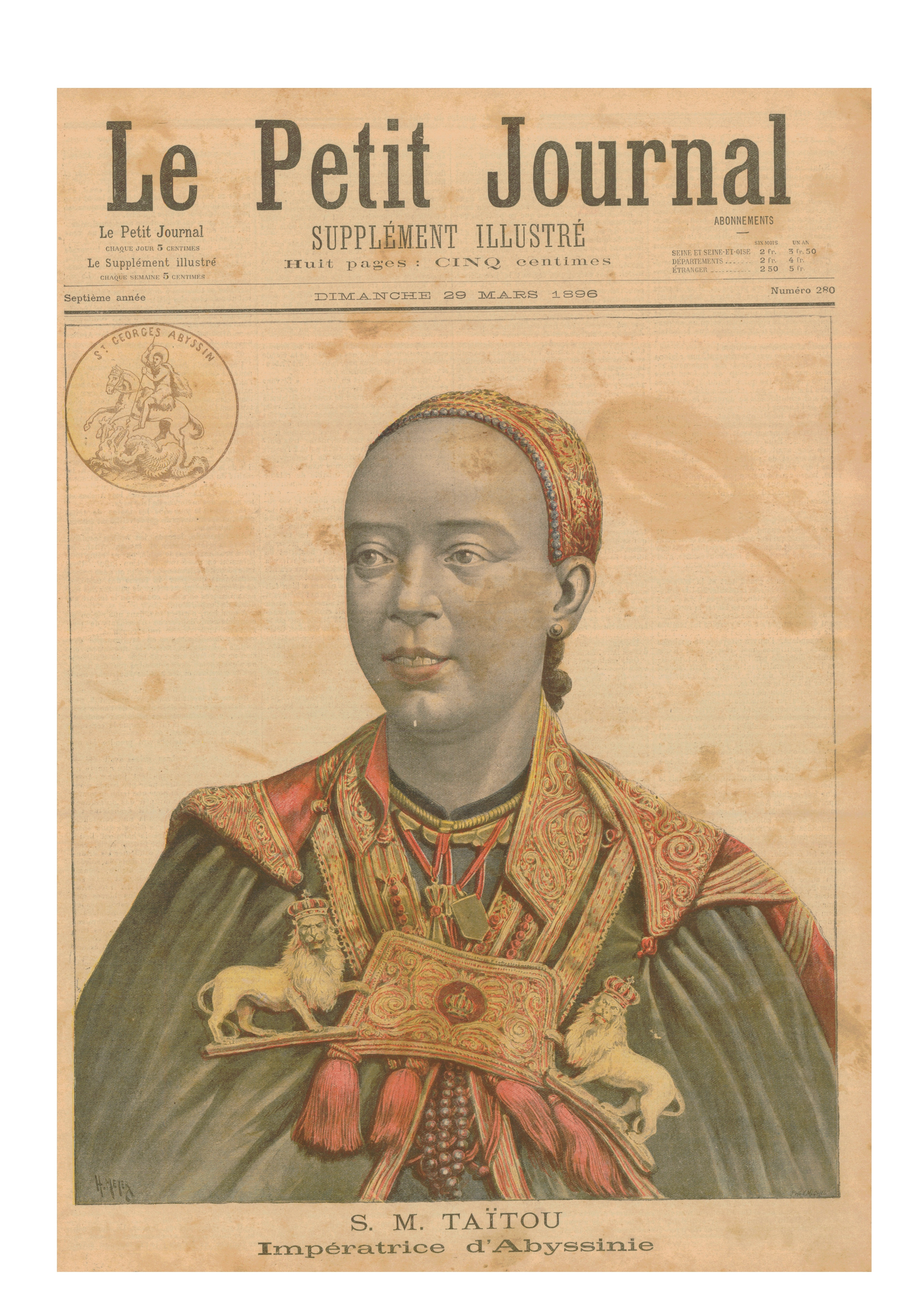 Page from old french newspaper "Le Petit Journal" depicting Taytu Betul